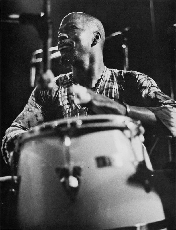 Clarke playing the congas